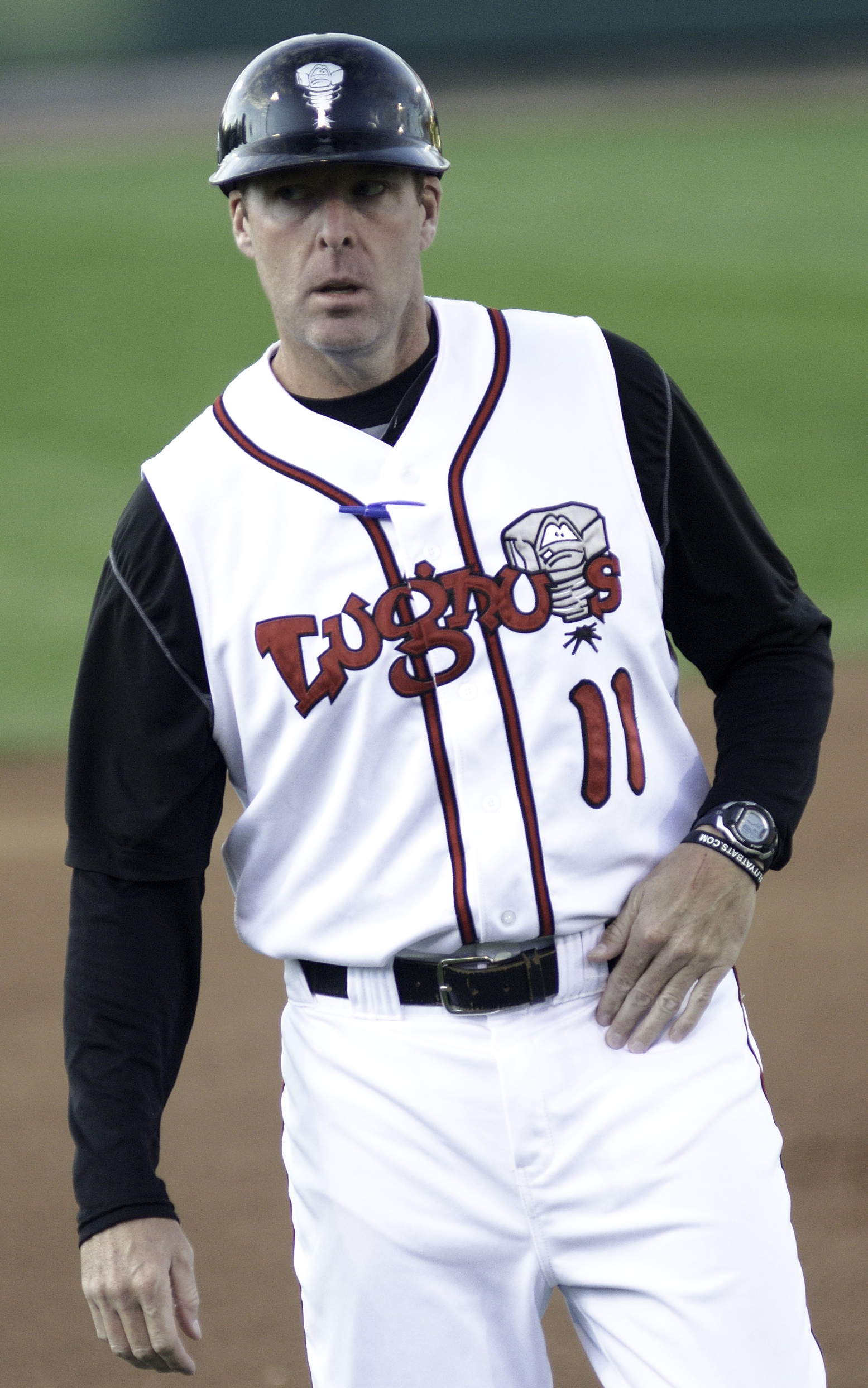 Former Lansing Lugnuts manager Mike Redmond – Quad Cities @ Lansing 09152011